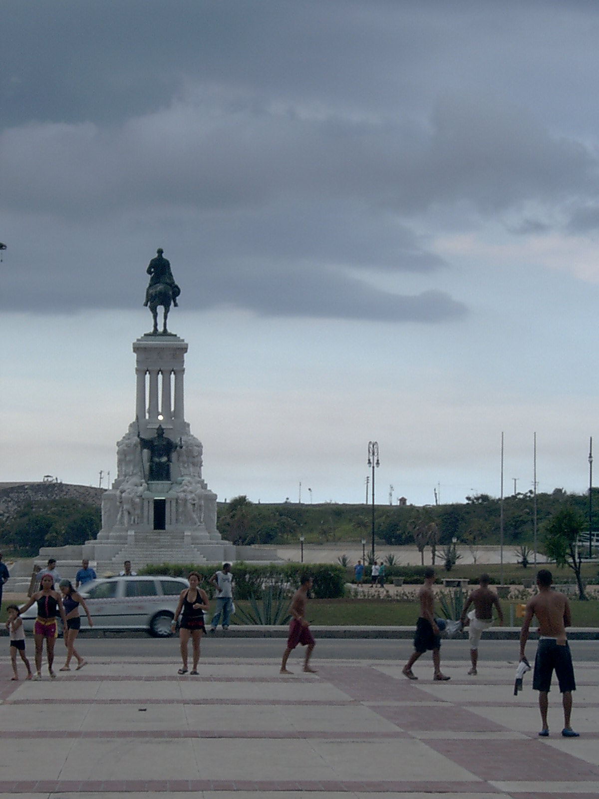 Maxímo Gómez's statue in La Habana